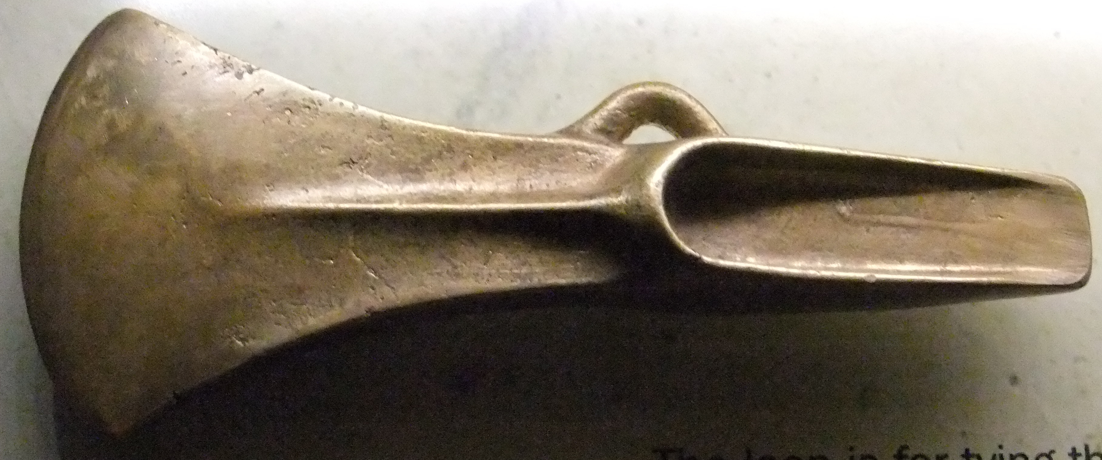 Bronze axe head, Wrexham Museum, Wales.